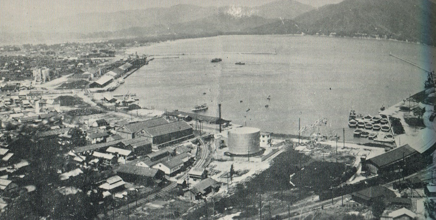 Port of Tsuruga about 1960